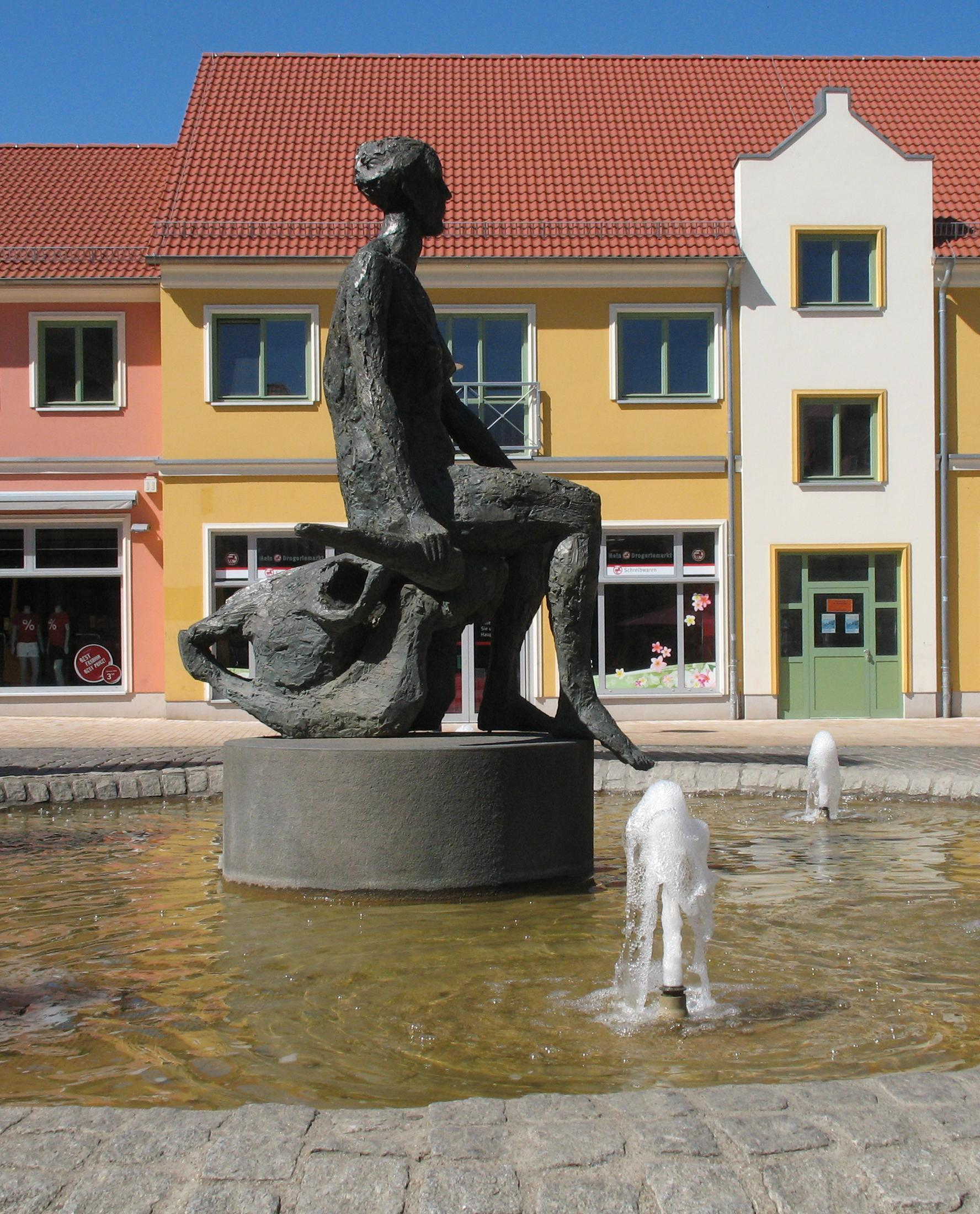 Fountain in Parchim in Mecklenburg-Western Pomerania, Germany